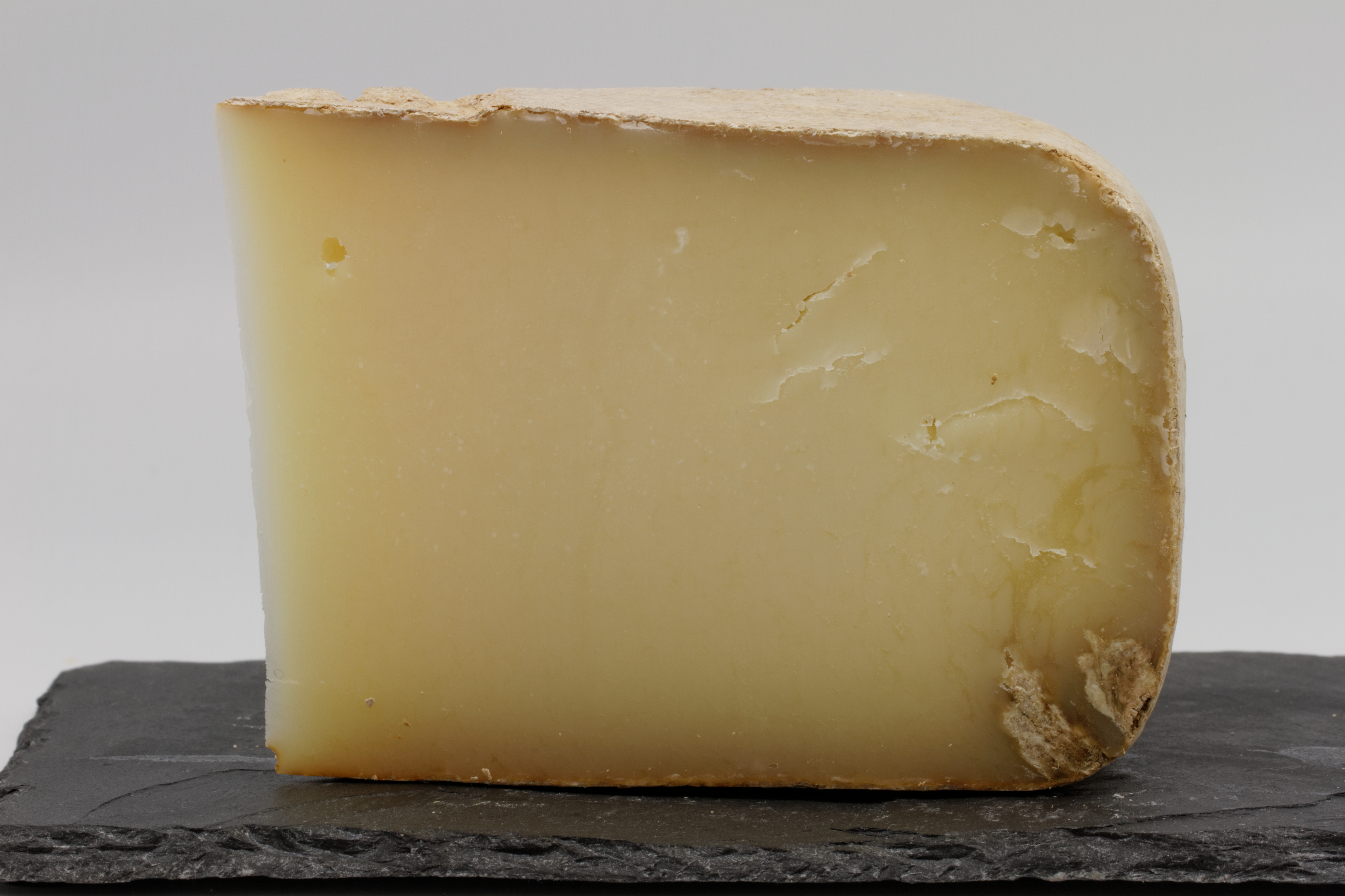 Ossau-iraty